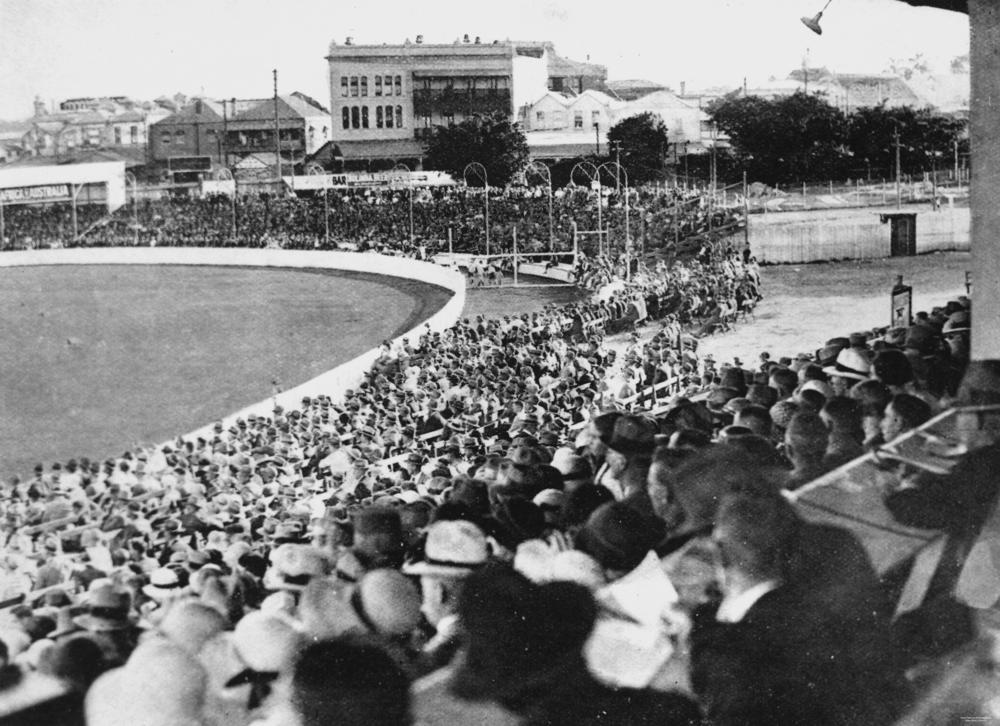 International cricket match between South Africa and Australia at the Gabba, 1931: The business district is next to the sportsground and several business buildings towered over the grounds.